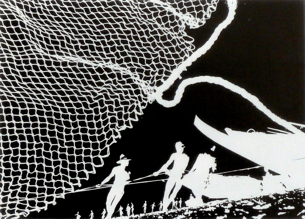 Ami1 (Fishing Net 1) by Kitazumi Genzo.